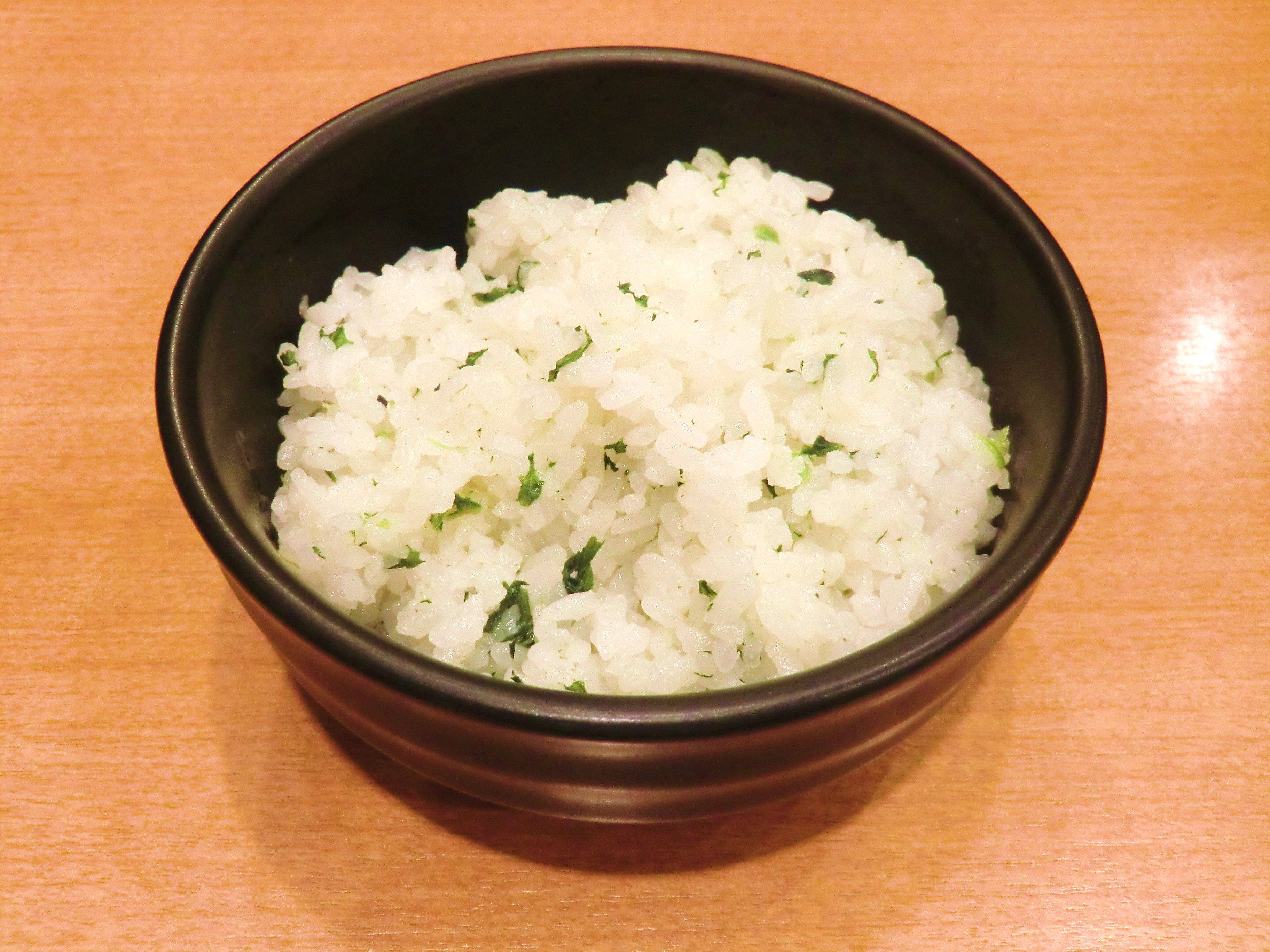 Nameshi (菜飯)